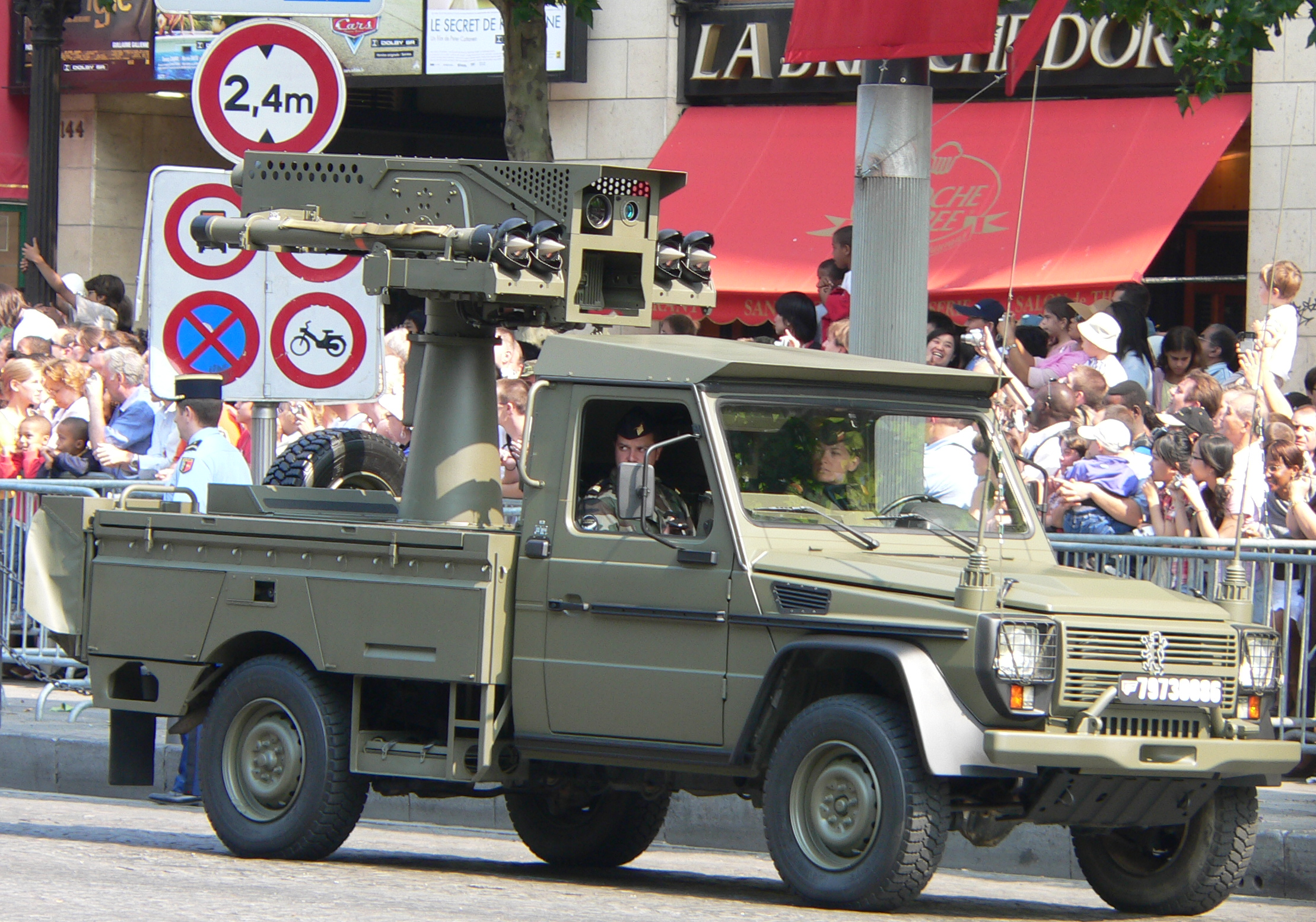 Mistral missile in Aspic mounting on a Peugeot P4 vehicle